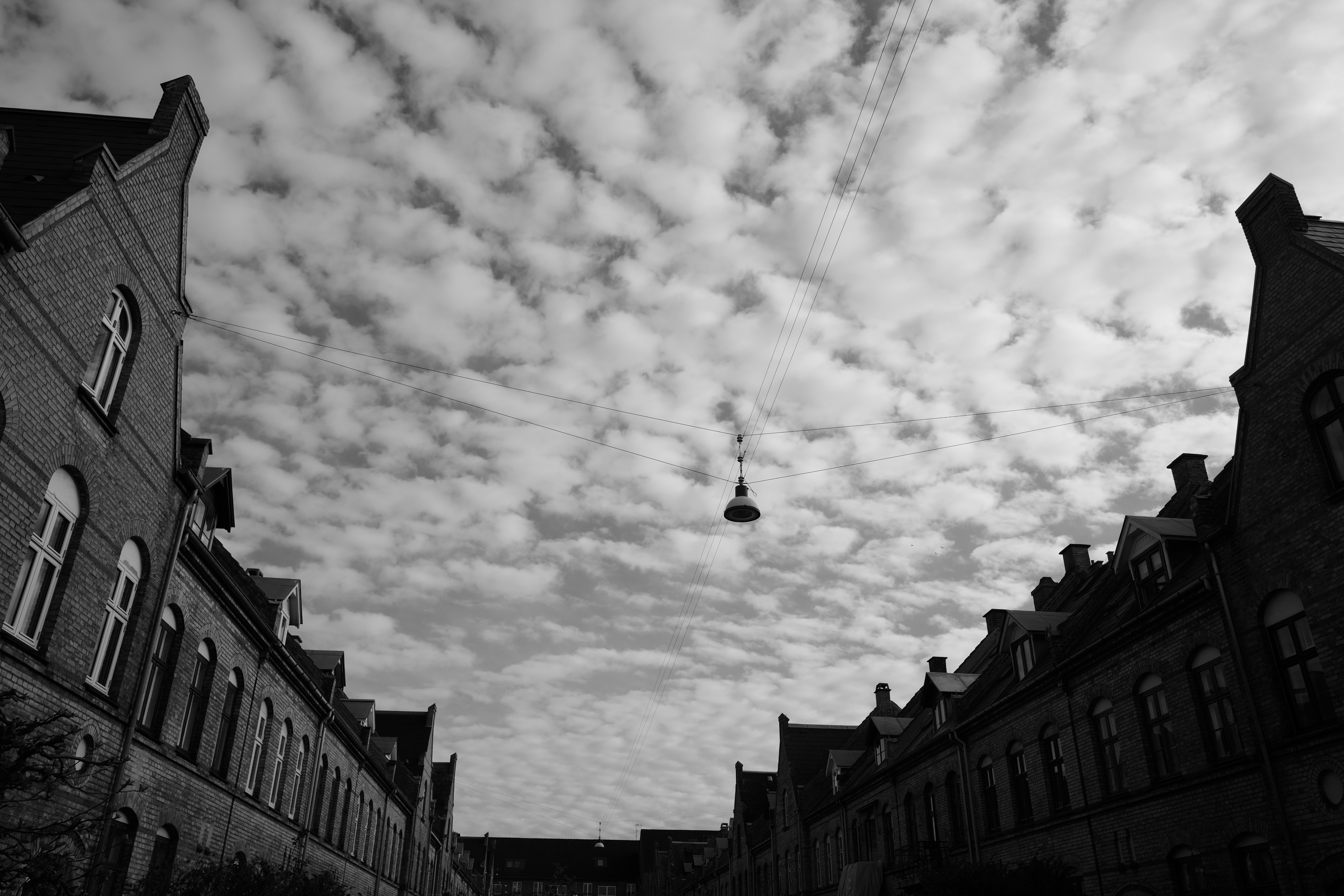 Weysesgade